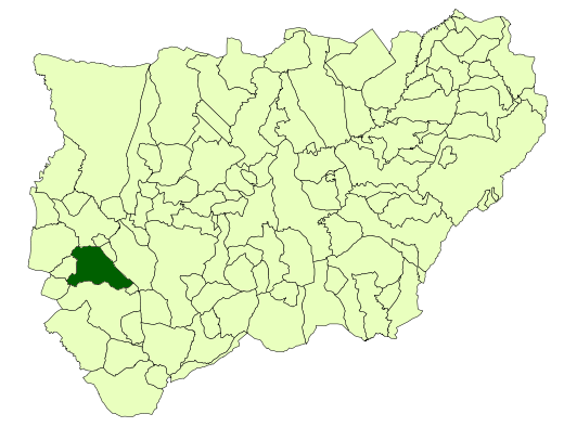 Situation of the municipality of Torredonjimeno (Jaén, Spain).